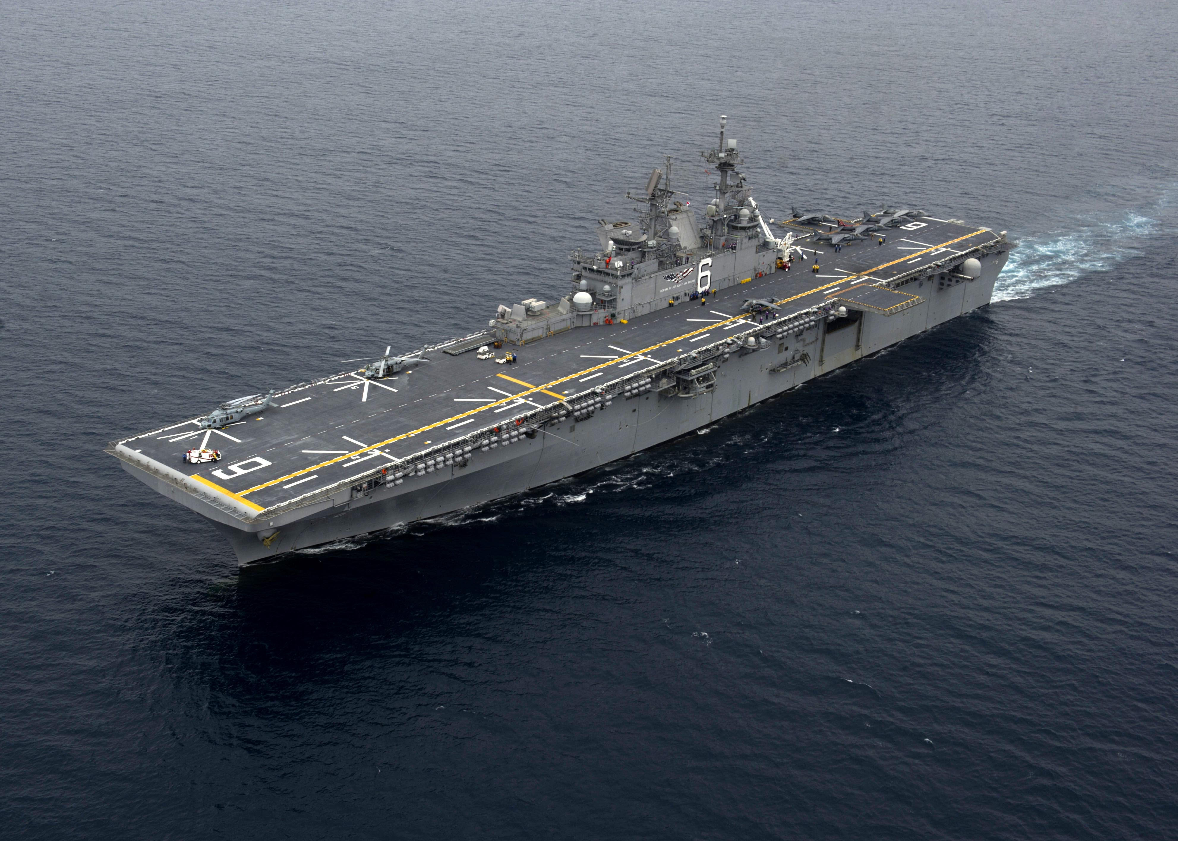 The U.S. Navy amphibious assault ship USS America (LHA-6) conducts flight operations off the coast of Southern California (USA) during the ship's recertification of the flight deck after completing a 10-month Post Shakedown Availability (PSA).